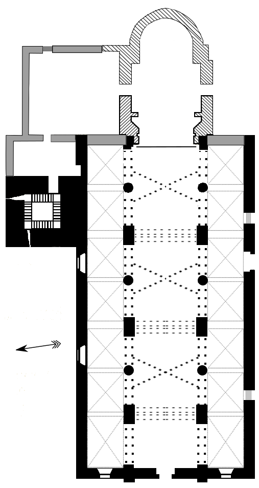 Plans of San Floriano's church in San Pietro in Cariano - Verona (Italy)